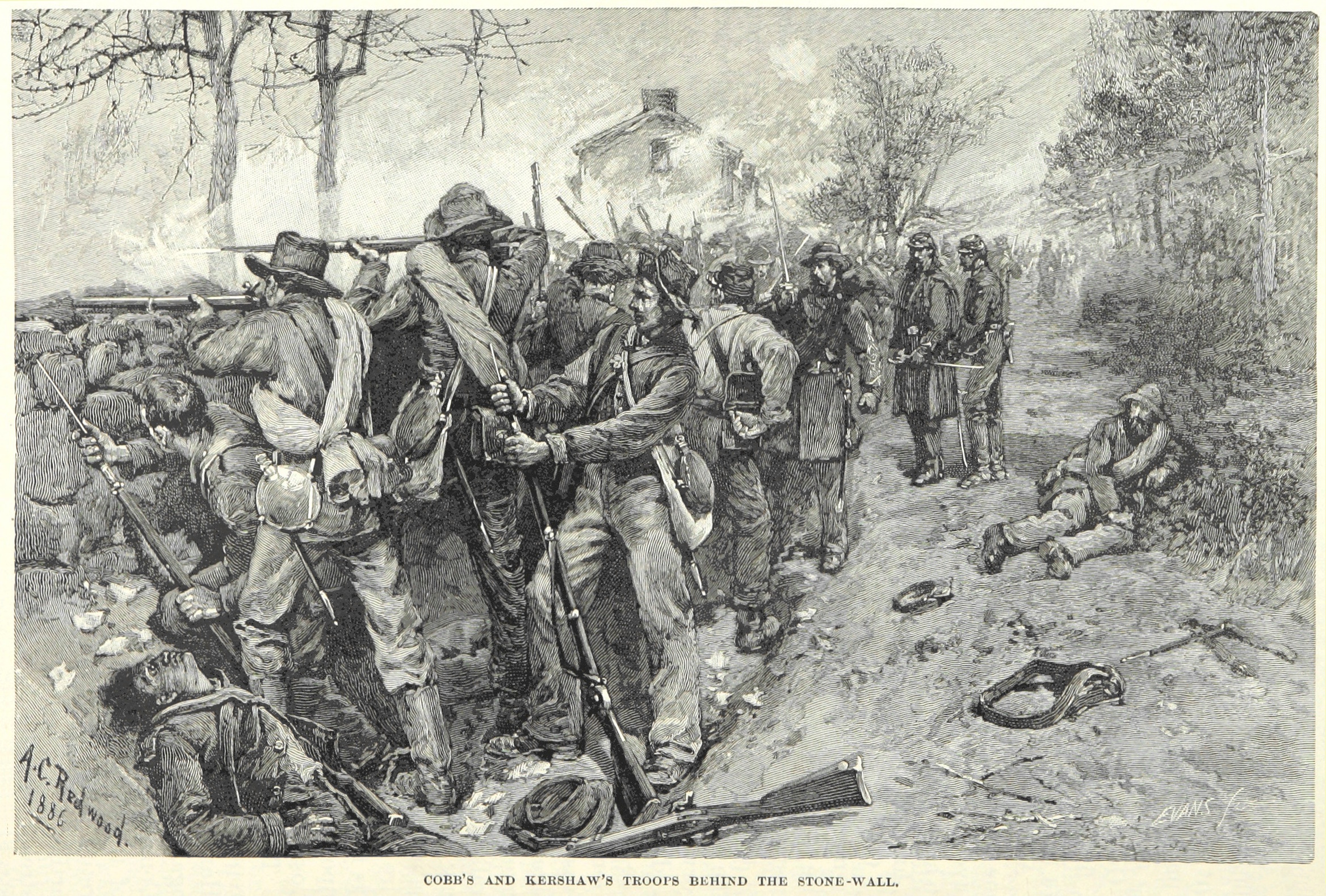 Confederate troops commanded by Generals Cobb and Kershaw fire at attacking Union soldiers from behind a stone wall during the Battle of Fredericksburg.